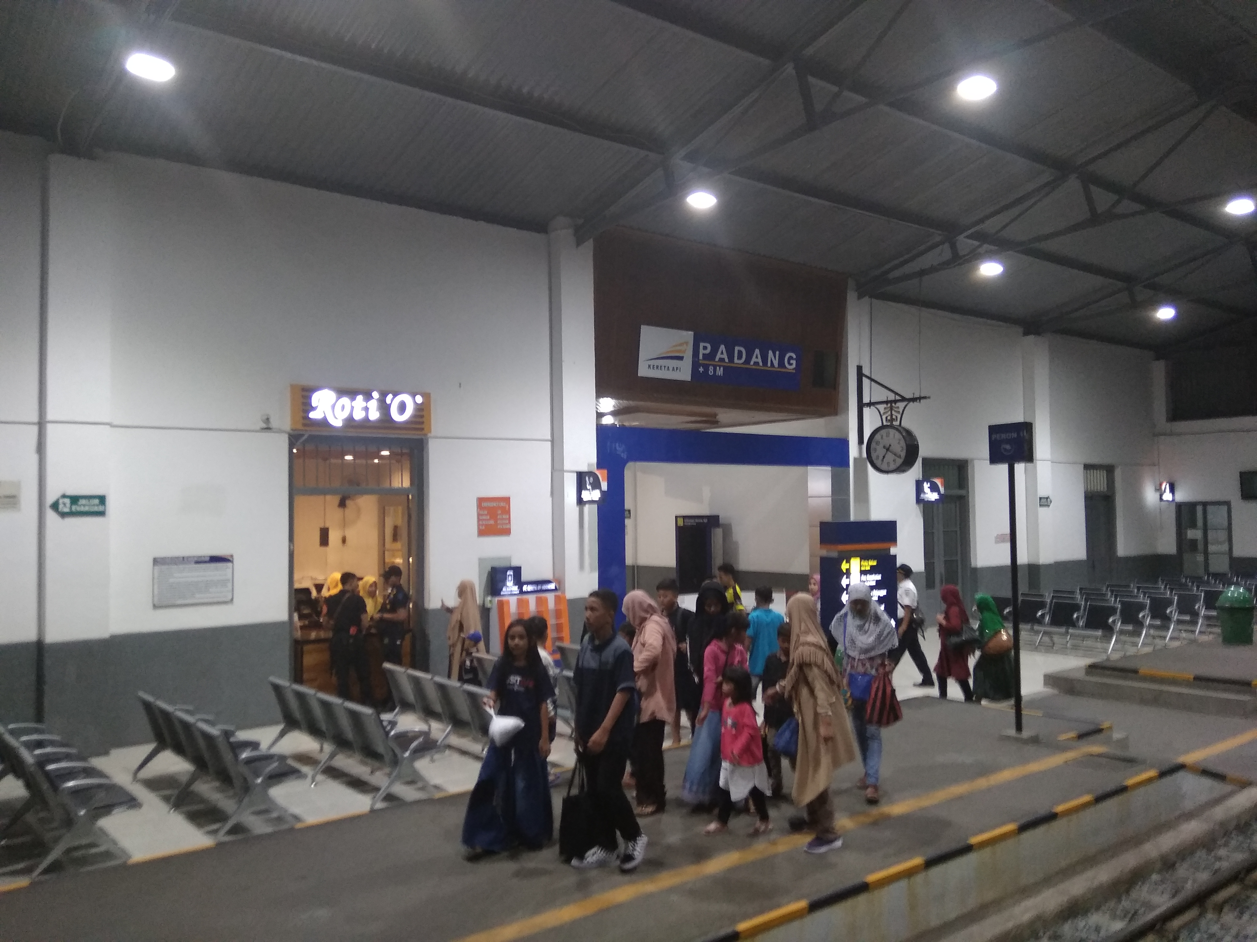 Place of arrival for train passengers at Padang Station at night.